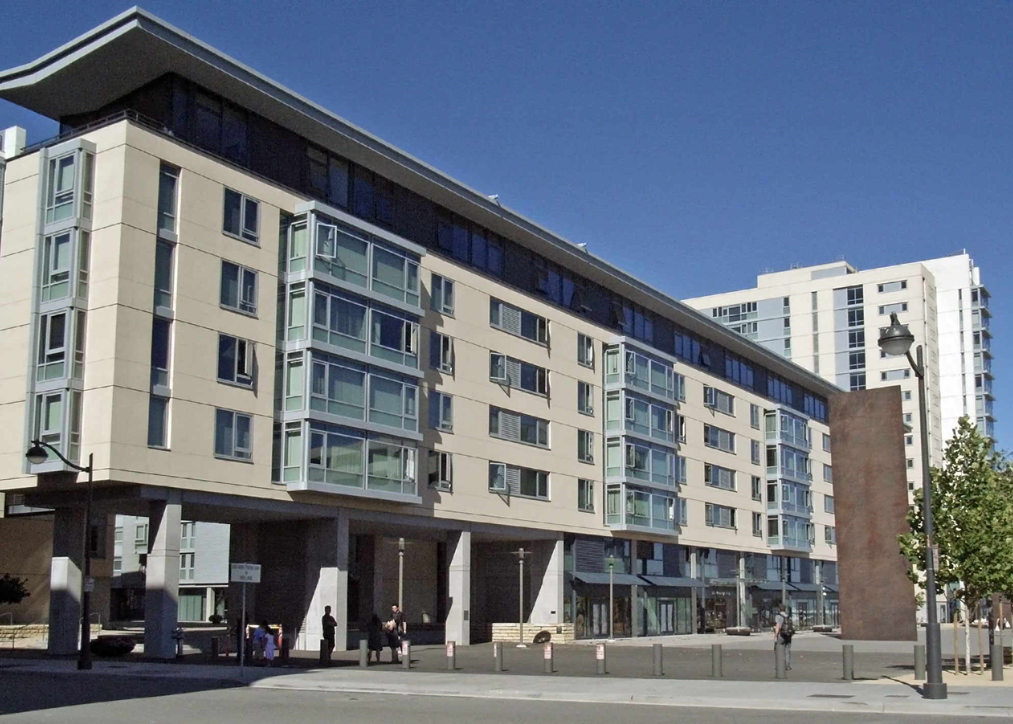 I thought we didn't build things quite this severe or monumental anymore.